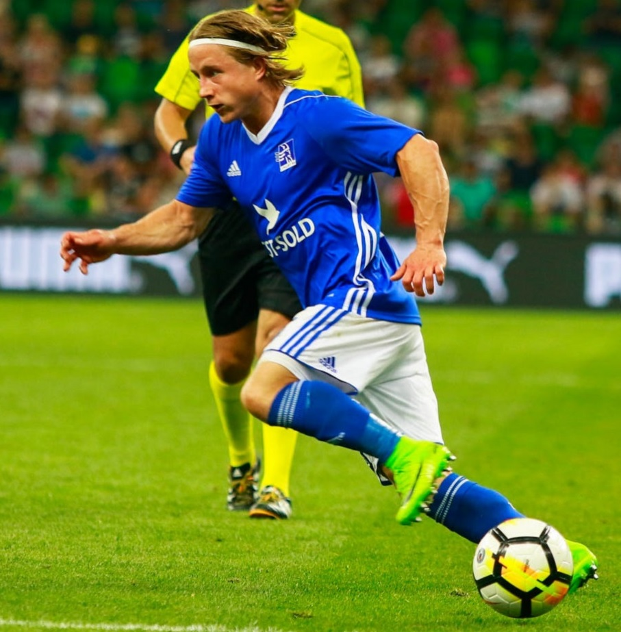 Jeppe Kjær with Lyngby BK in an Europa League game against FC Krasnodar.